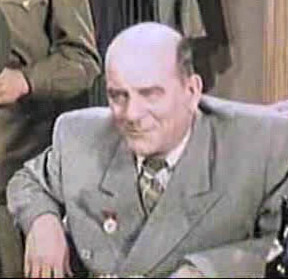 Sergei Komarov as a member of comission in The Train Goes East (1947)